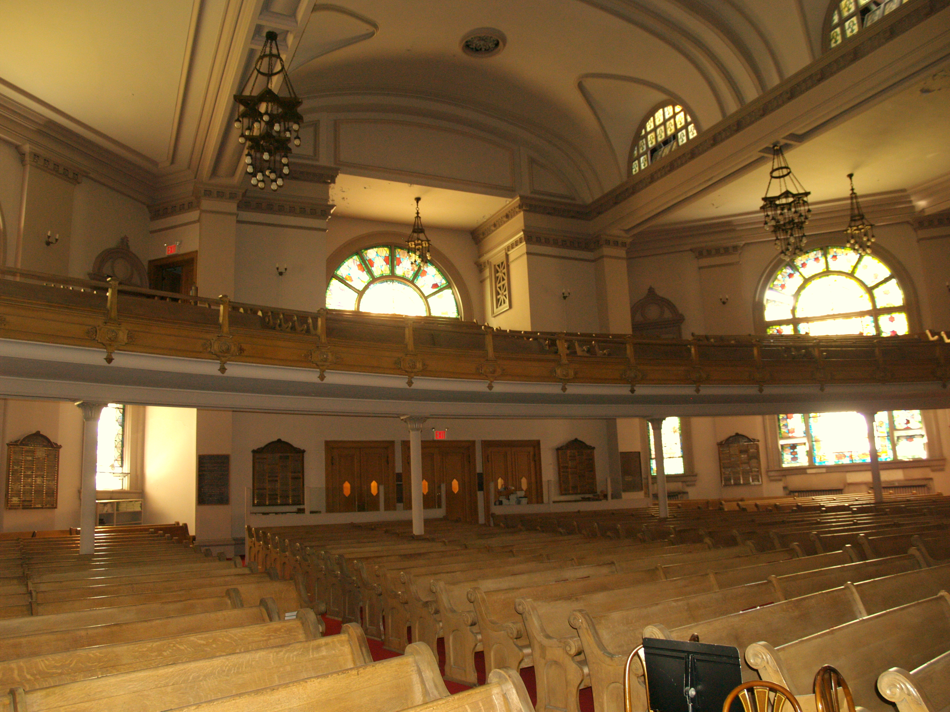 Congregation Beth Elohim in Park Slope, Brooklyn, New York.